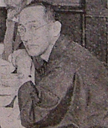 Portrait of Kawai Senro(1871/6/15-1945/3/10), seal engraver connoisseur of chinese arts, photo in 1934]